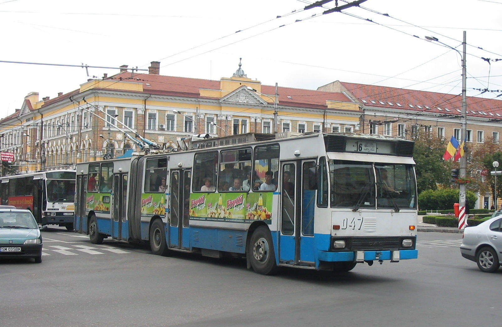 A Rocar-built trolleybus in Cluj-Napoca, Romania. Trolleybus 047 (a 1997 Rocar 217EA) is westbound on Bulevardul 21 Decembrie 1989 at Piața Avram Iancu, in the city centre.